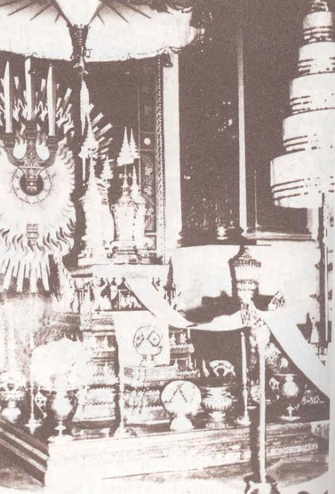 Royal merit-making ceremony for the Royal Relics of King Vajiravudh @ Phra Thinang Chakri Maha Prasat